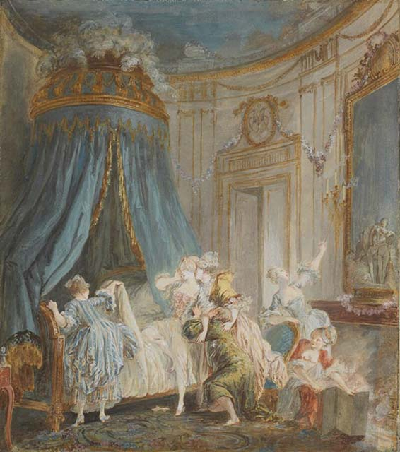 Bringing the Bride to Bed